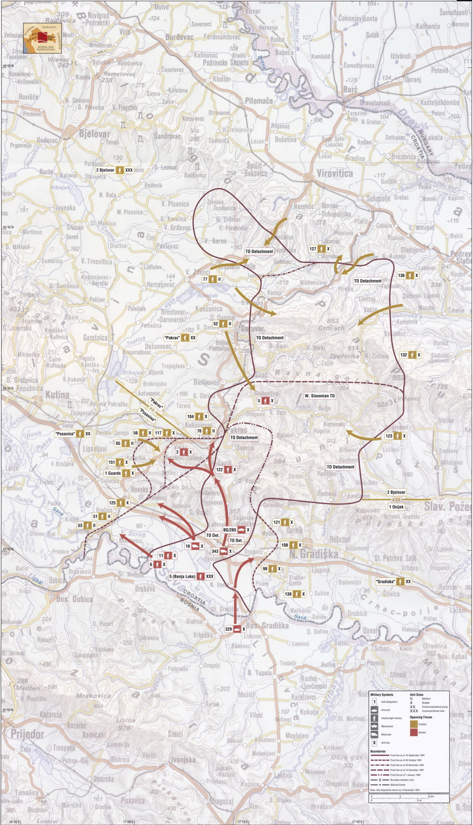 Map of front lines and military offensives in the western Slavonia in Croatia in September 1991-January 1992 period of the Croatian War of Independence. Balkan Battlegrounds Map 4.